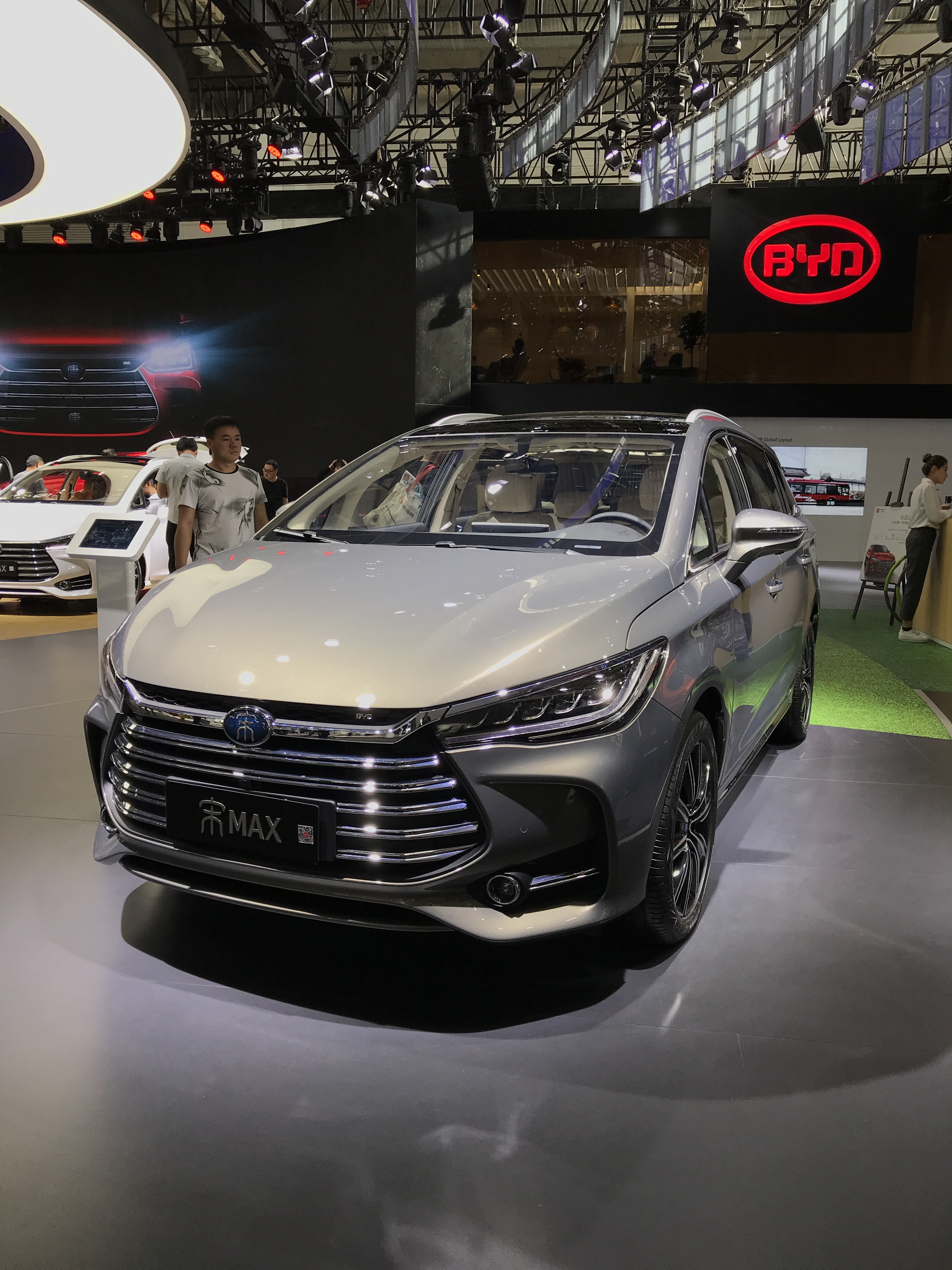 BYD Song Max facelift